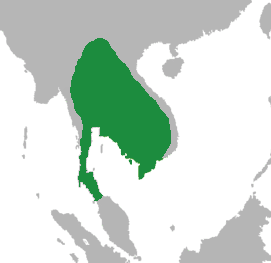 Enlarged map of the Khmer Empire